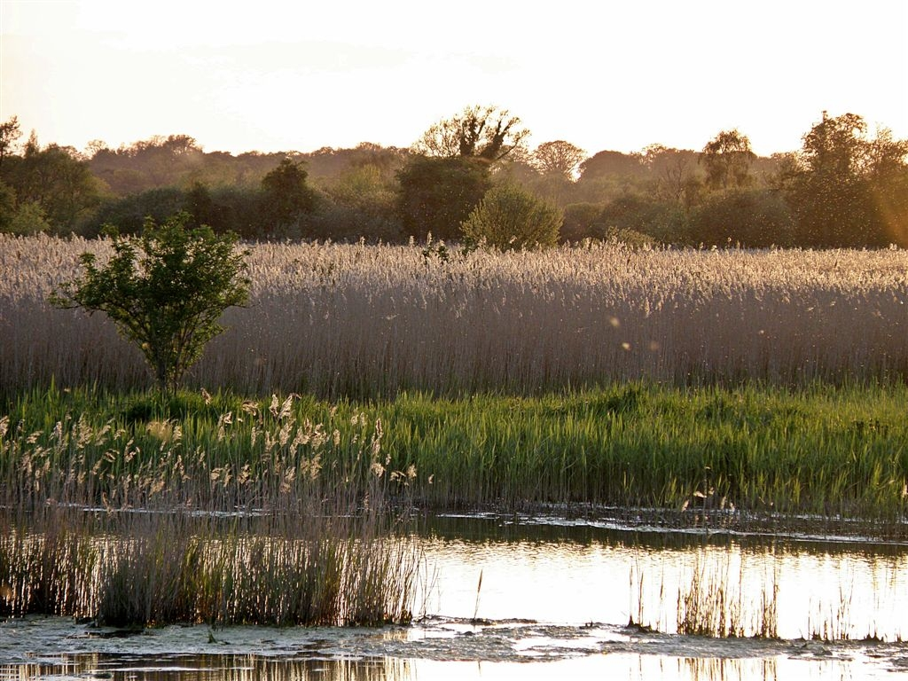 RSPB Strumpshaw Fen Norfolk view from the Fen Hide. The green reed is the common reed Phragmites australis which was cut in winter. The taller reed is reed that was not cut.